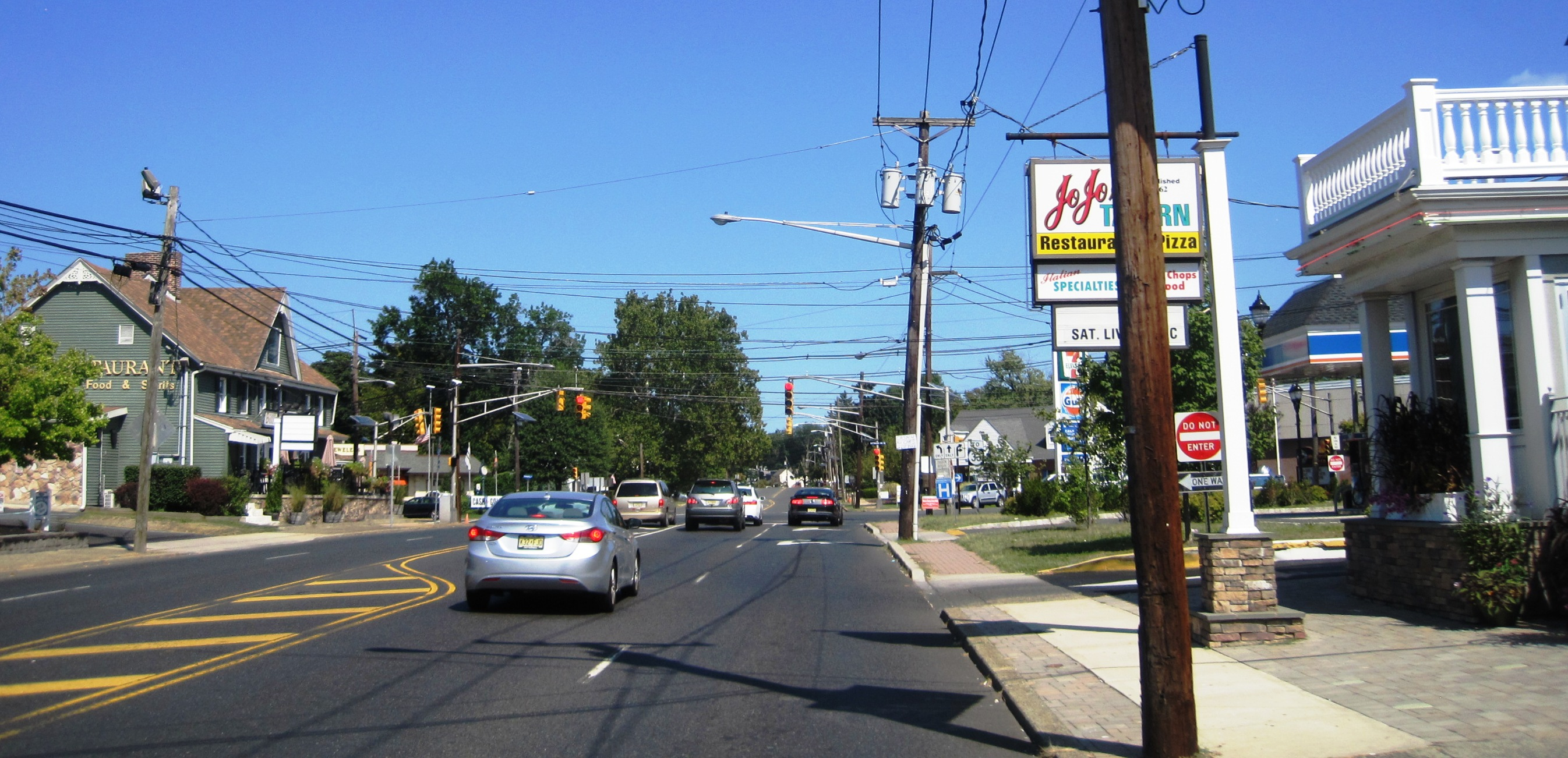 Photo of Mercerville, New Jersey, a census designated place within Hamilton Township, Mercer County. Photo taken at the "Five Points Intersection" on eastbound Notthingham Way (County Route 535) at Quaker Bridge Road / Mercerville-White Horse Road (CR 533) and (CR 618).